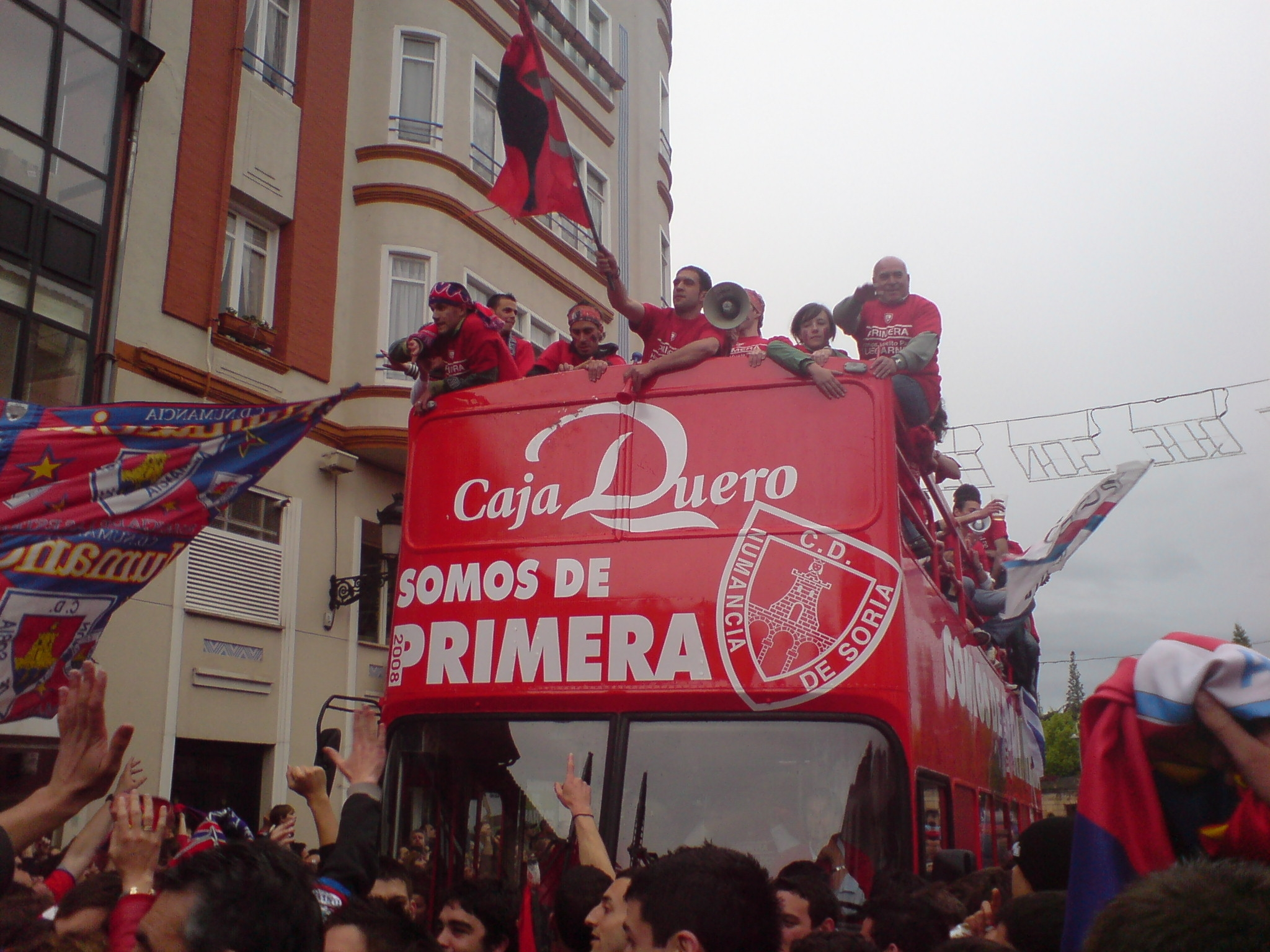 CD Numancia's promotion to Primera División celebration in Soria. Seasson 2007-2008.